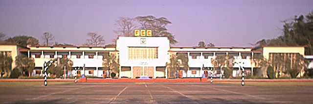 taken via digital camera